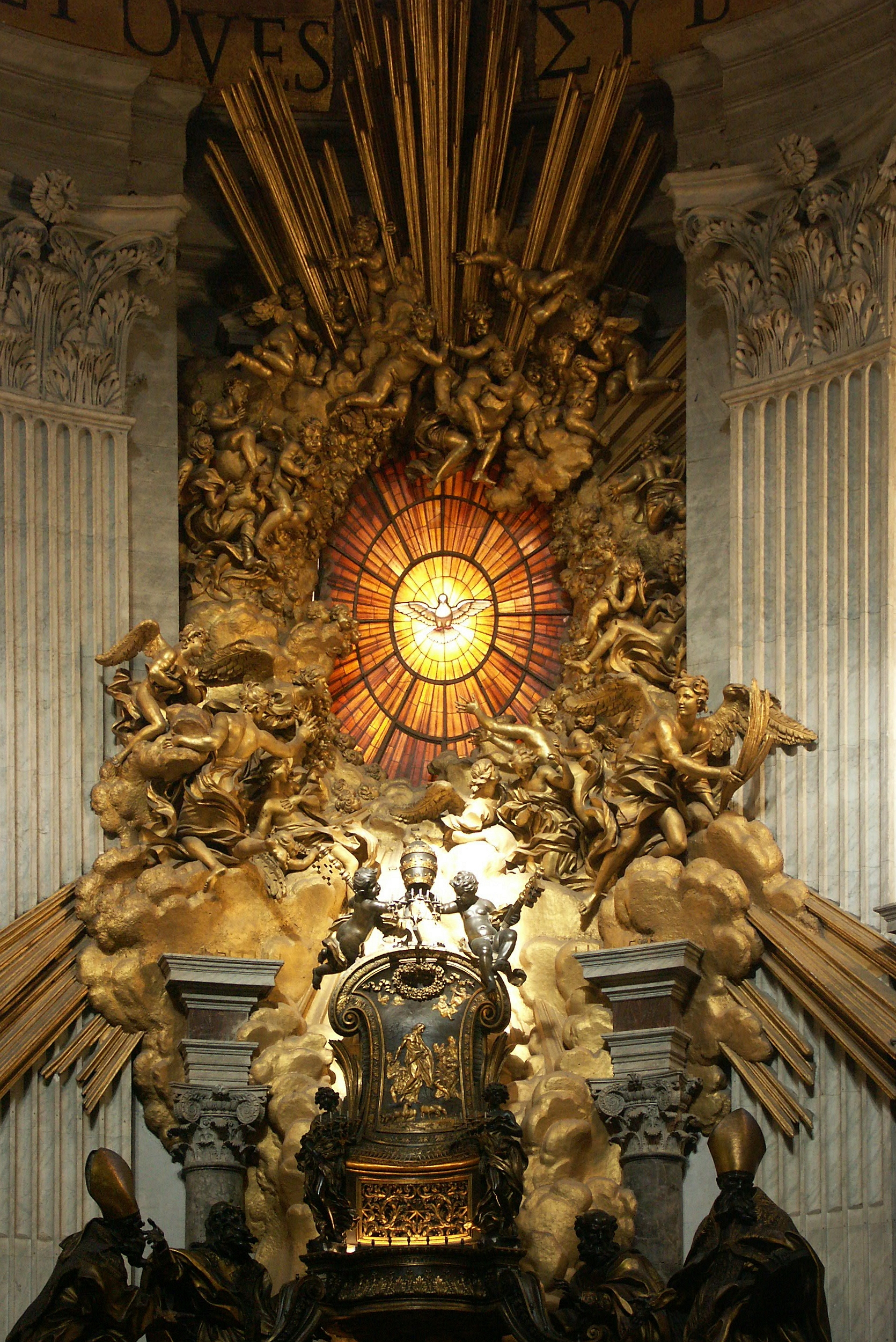 Rome, Vaticane, Chair of Saint Peter in St. Peter's Basilica